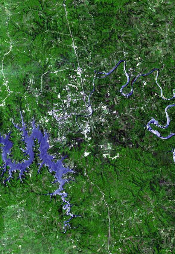 The raw satellite imagery shown in these images was obtain from NASA and/or the US Geological Survey. Post-processing and production by